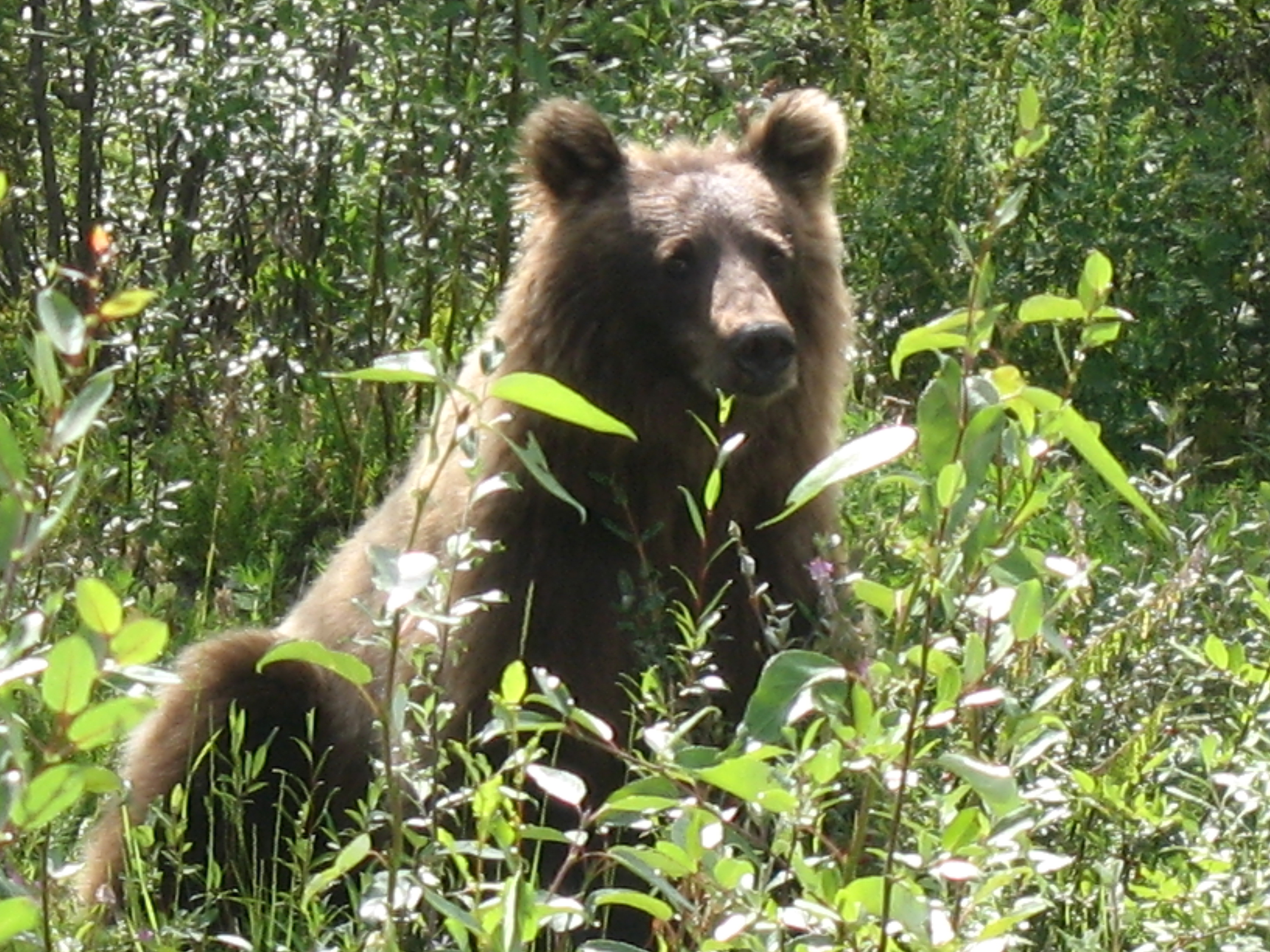 grizzly bear near Beaver Creek, Yukon